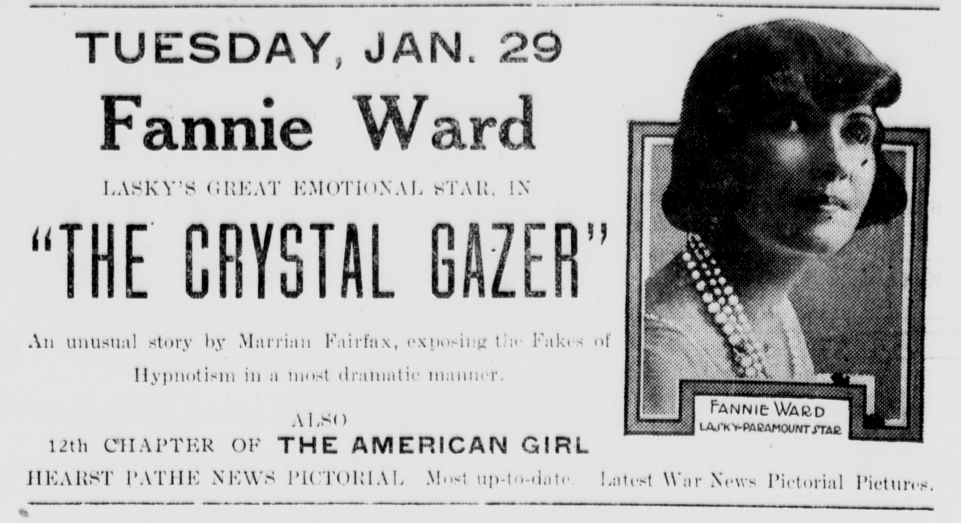 The Crystal Gazer is a 1917 American drama silent film directed by George Melford and written by Eve Unsell, Edna G. Riley, and Marion Fairfax. This is a newspaper advert.